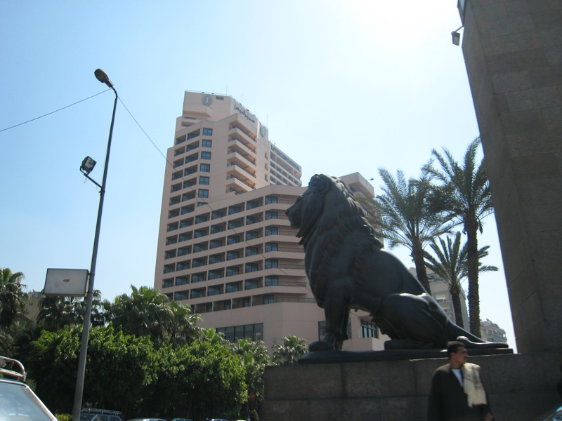 The Lion sculpture on the eastern end of Qasr al-Nil Bridge, with the Intercontinental Hotel behind, in Downtown Cairo, Egypt.